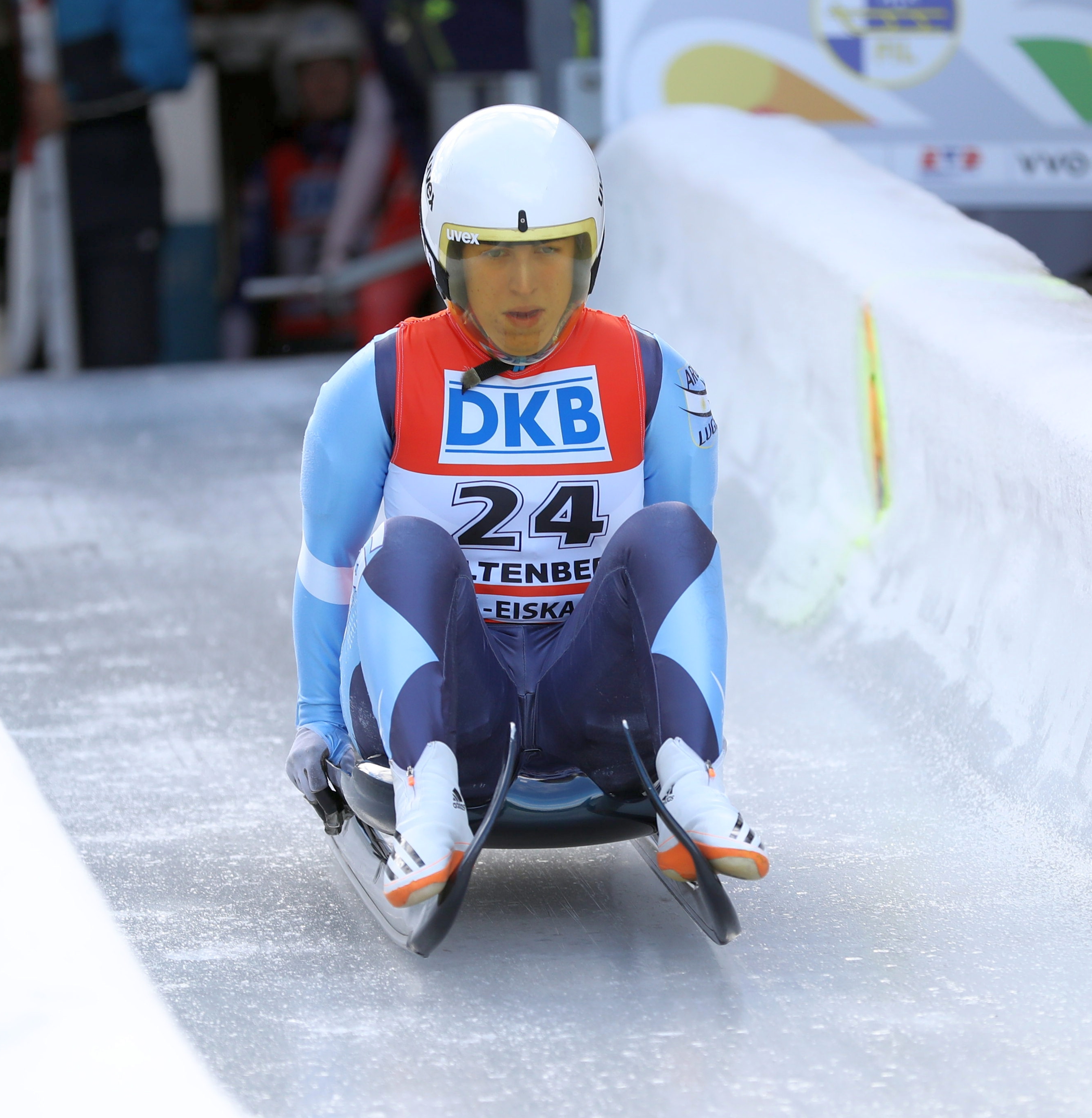 33rd Junior World Championship Luge, Altenberg 2018: Veronica Ravenna